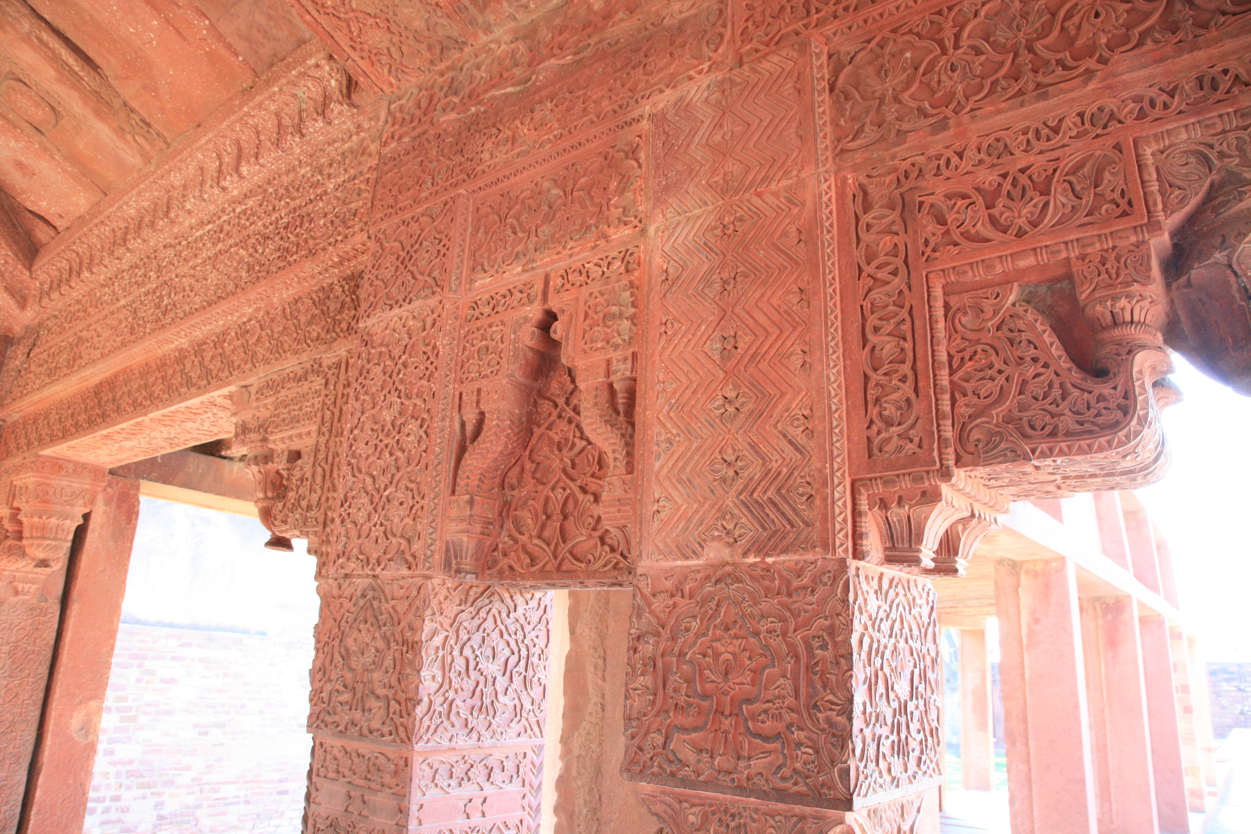 Columns at the highly decorated Turkish Sultana's House in the palace at Fatehpur Sikri.